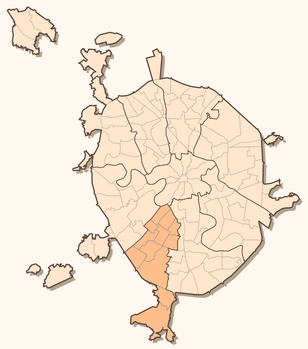 Moscow districts map